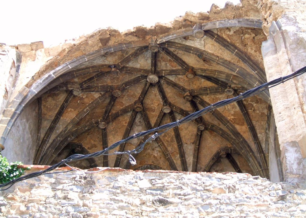 Bóveda gótica de la antigua iglesia de Nuestra Señora de Ynaguas, en Ágreda (Soria, Castilla y León, España)